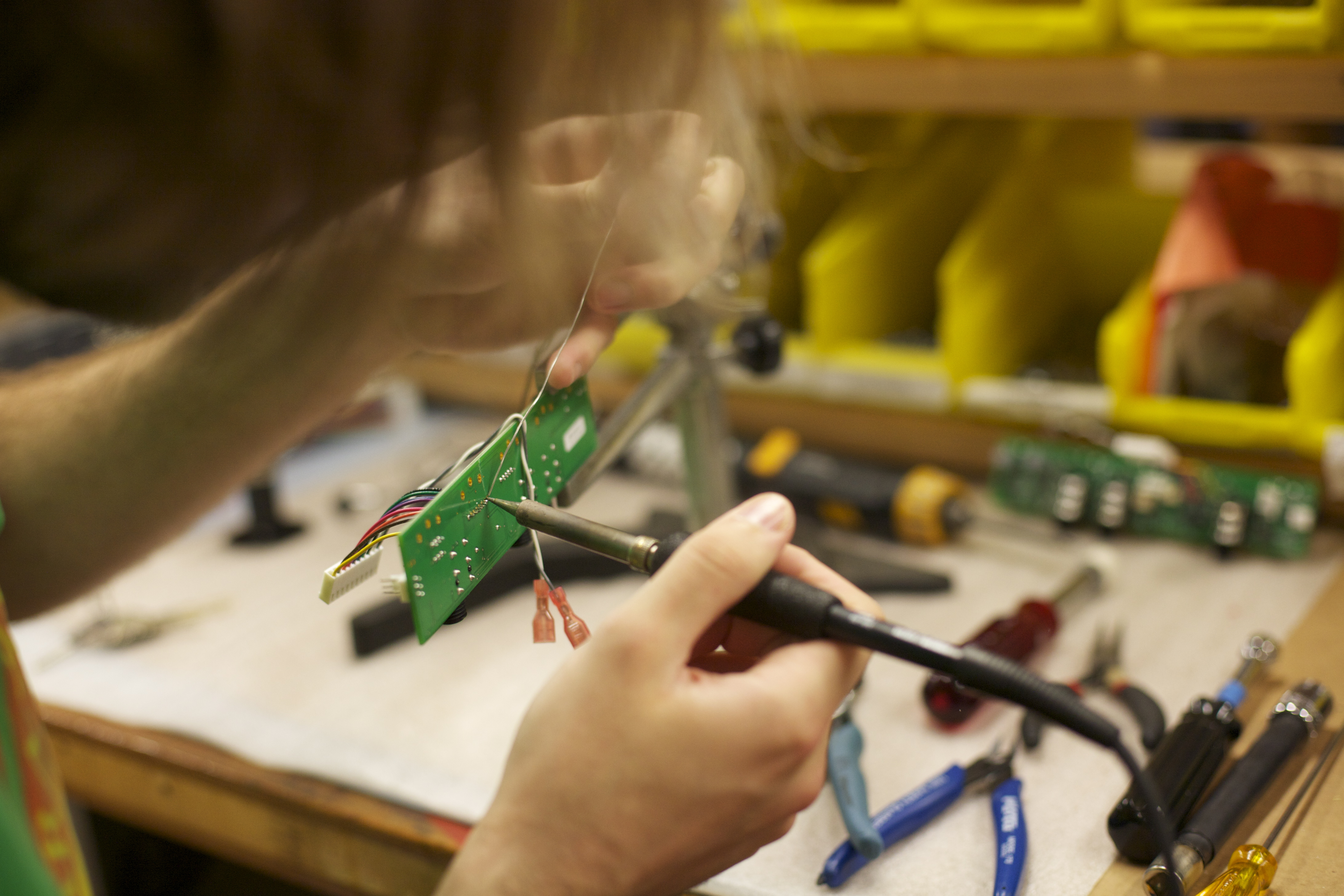 soldering a theremin circuit